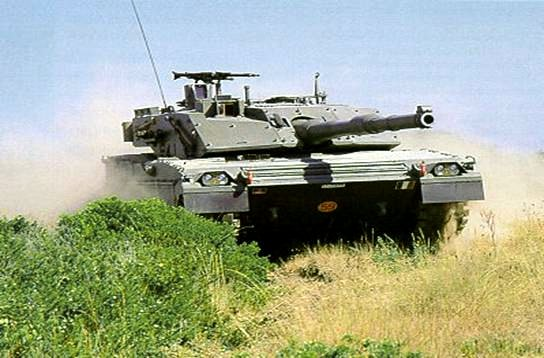 Italian Main Battle Tank Ariete, Downloaded from the official homepage of the Italian Army.